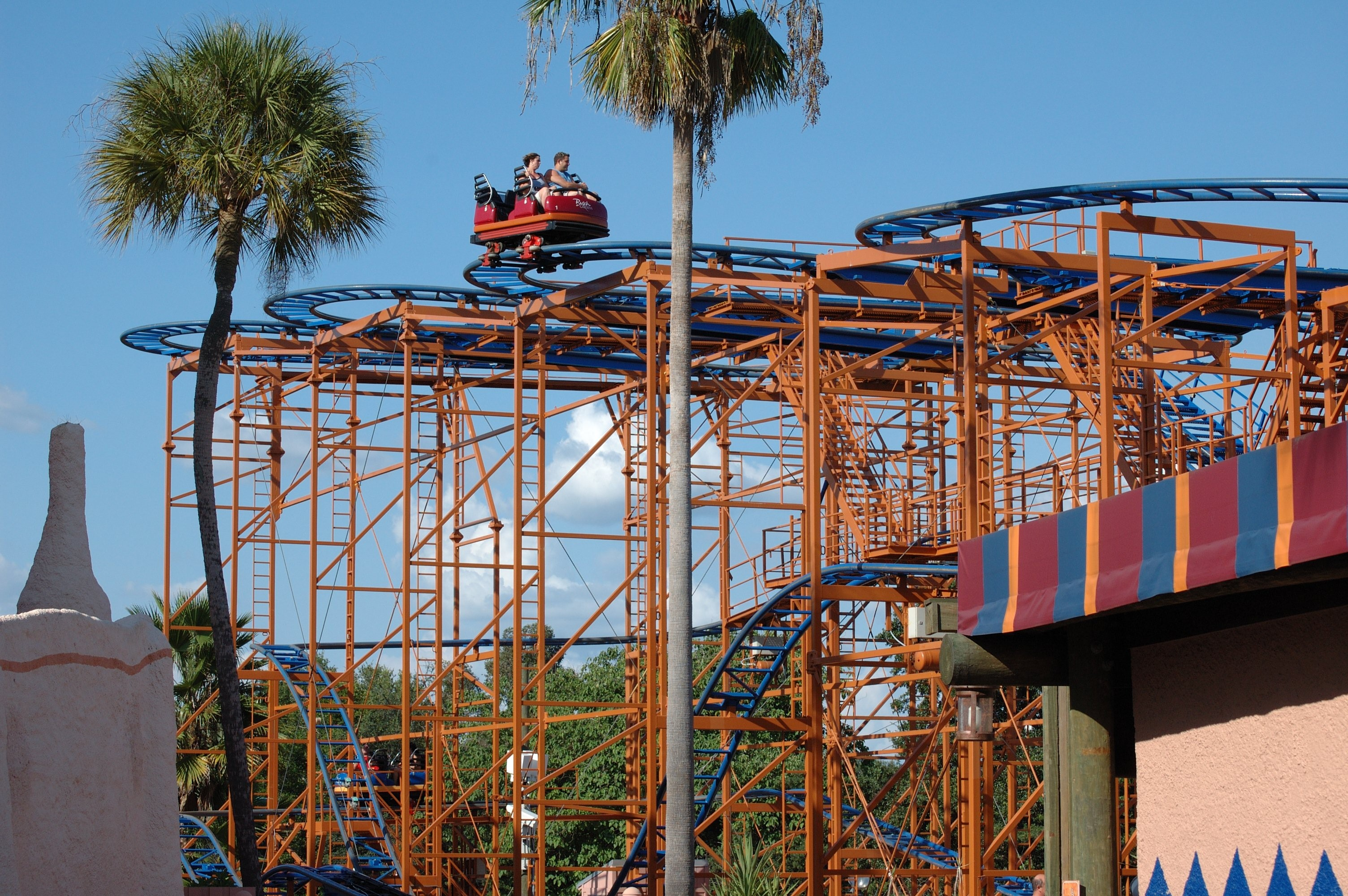 Cheetah Chase at Busch Gardens Tampa Bay. The ride is now known as Sand Serpent.